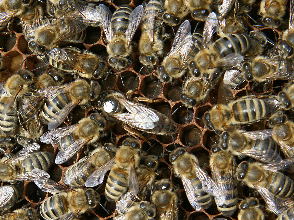 Marked queen bee with attendants